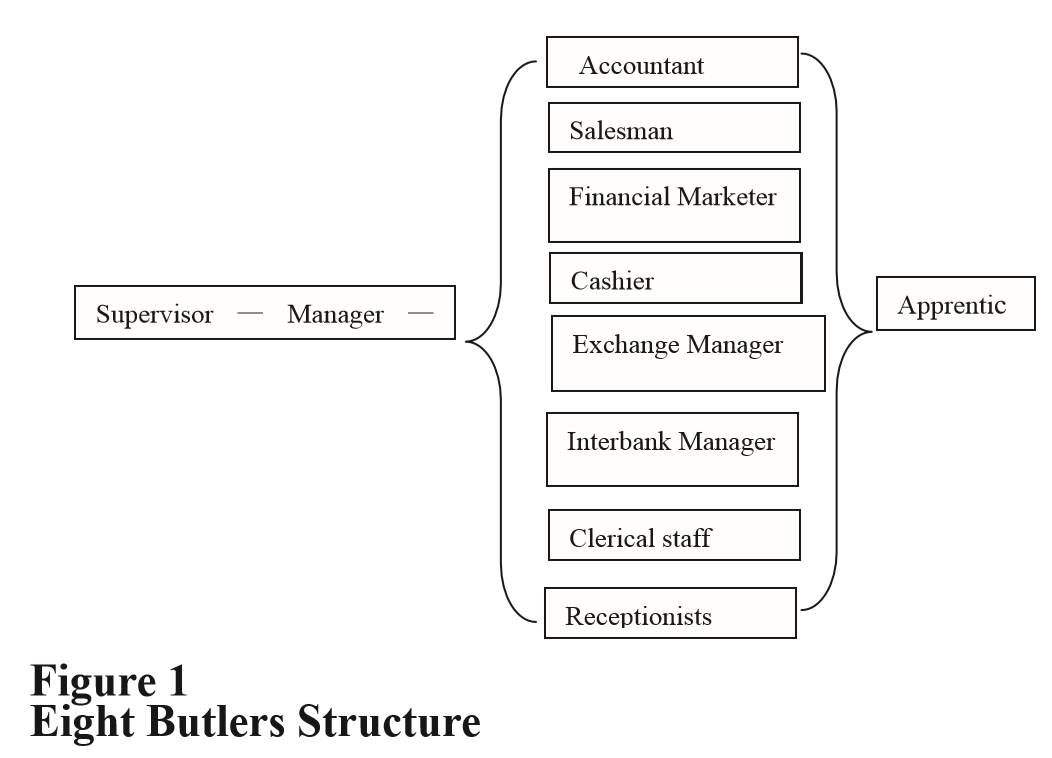 The typical structure of a Qianzhuang private bank illustrated by Wang Yanfen.